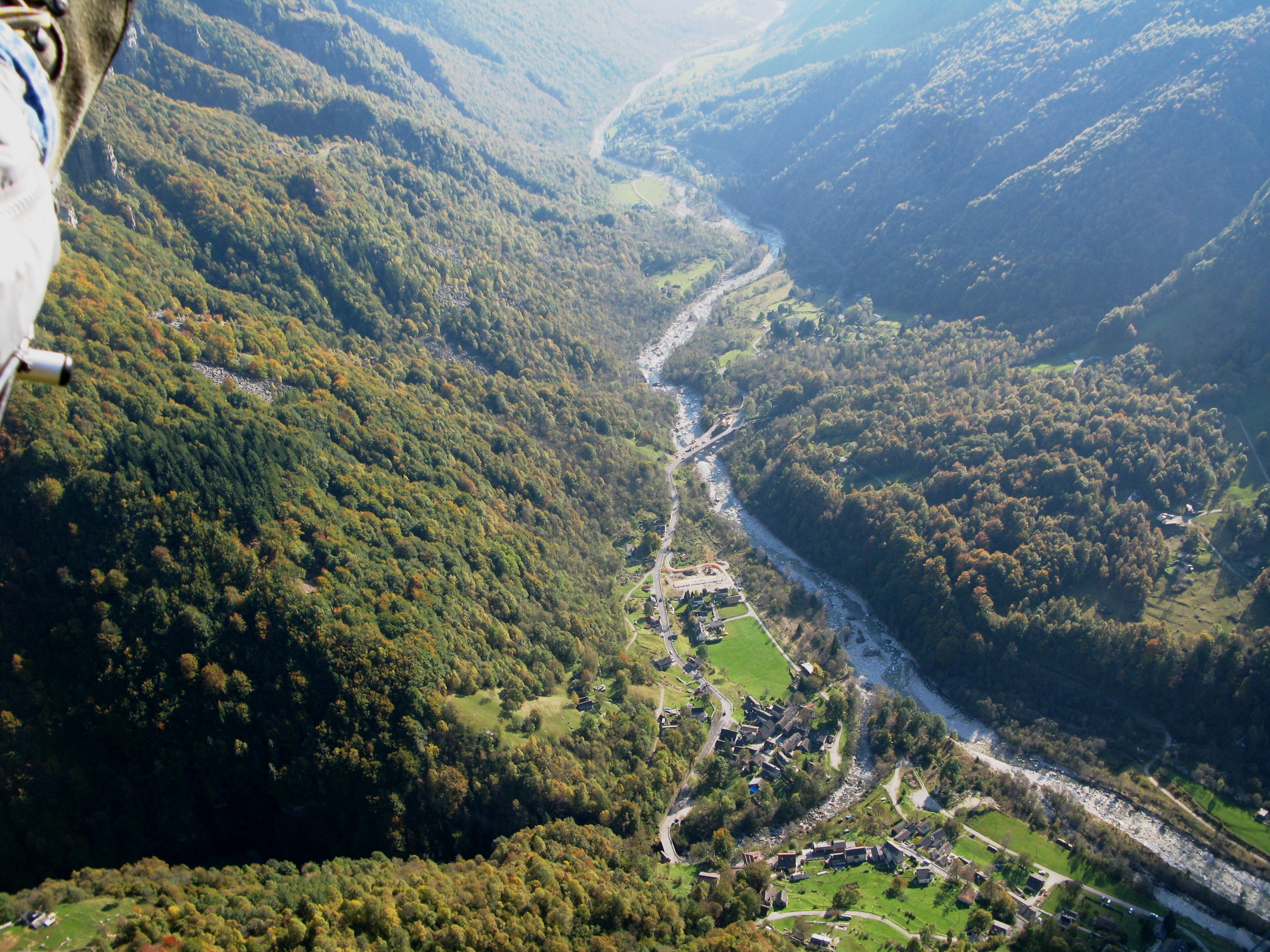 Frasco, Gerra Verzasca in the background and the landing field at Lorentino